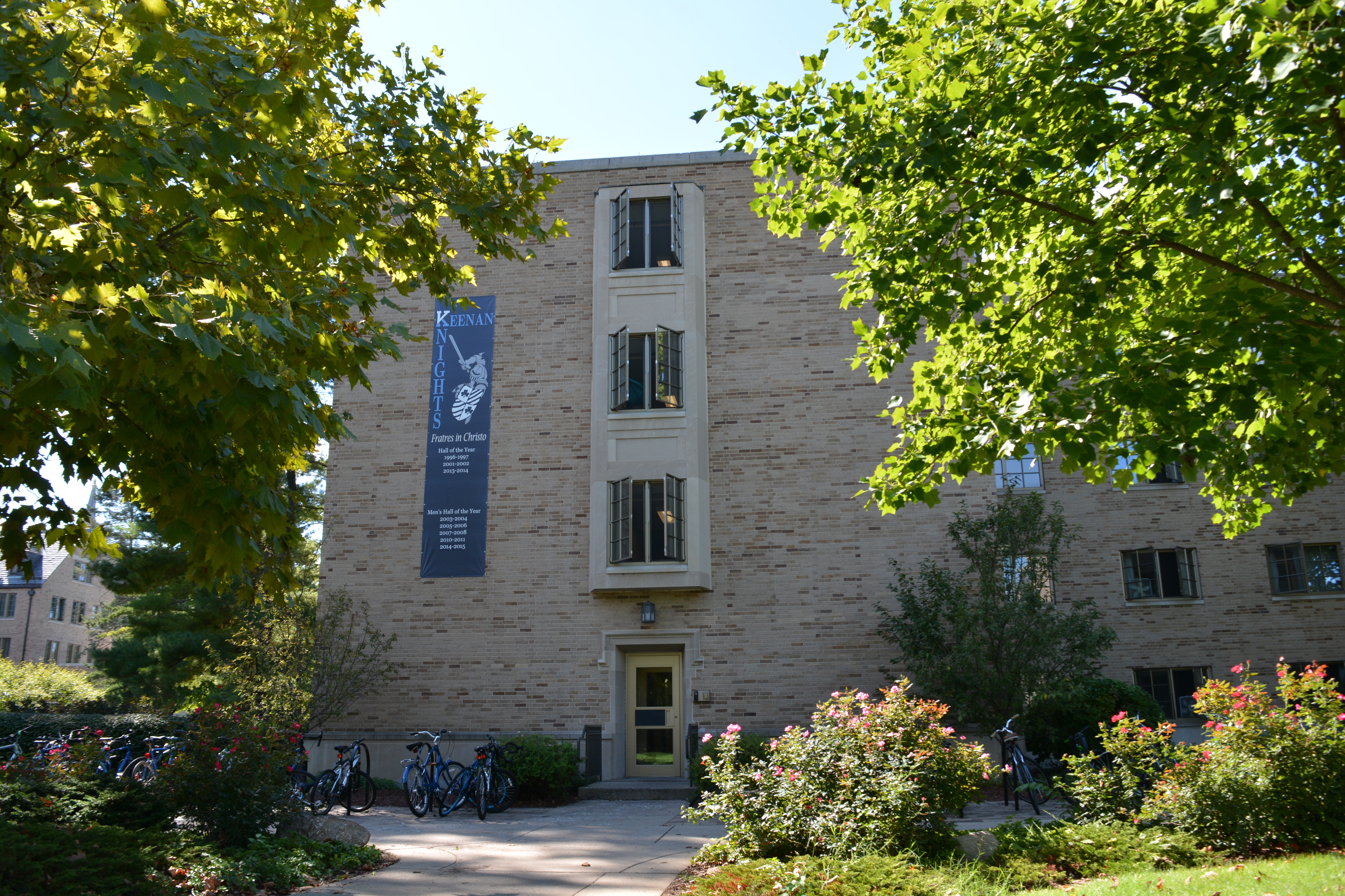 Keenan Hall - University of Notre Dame